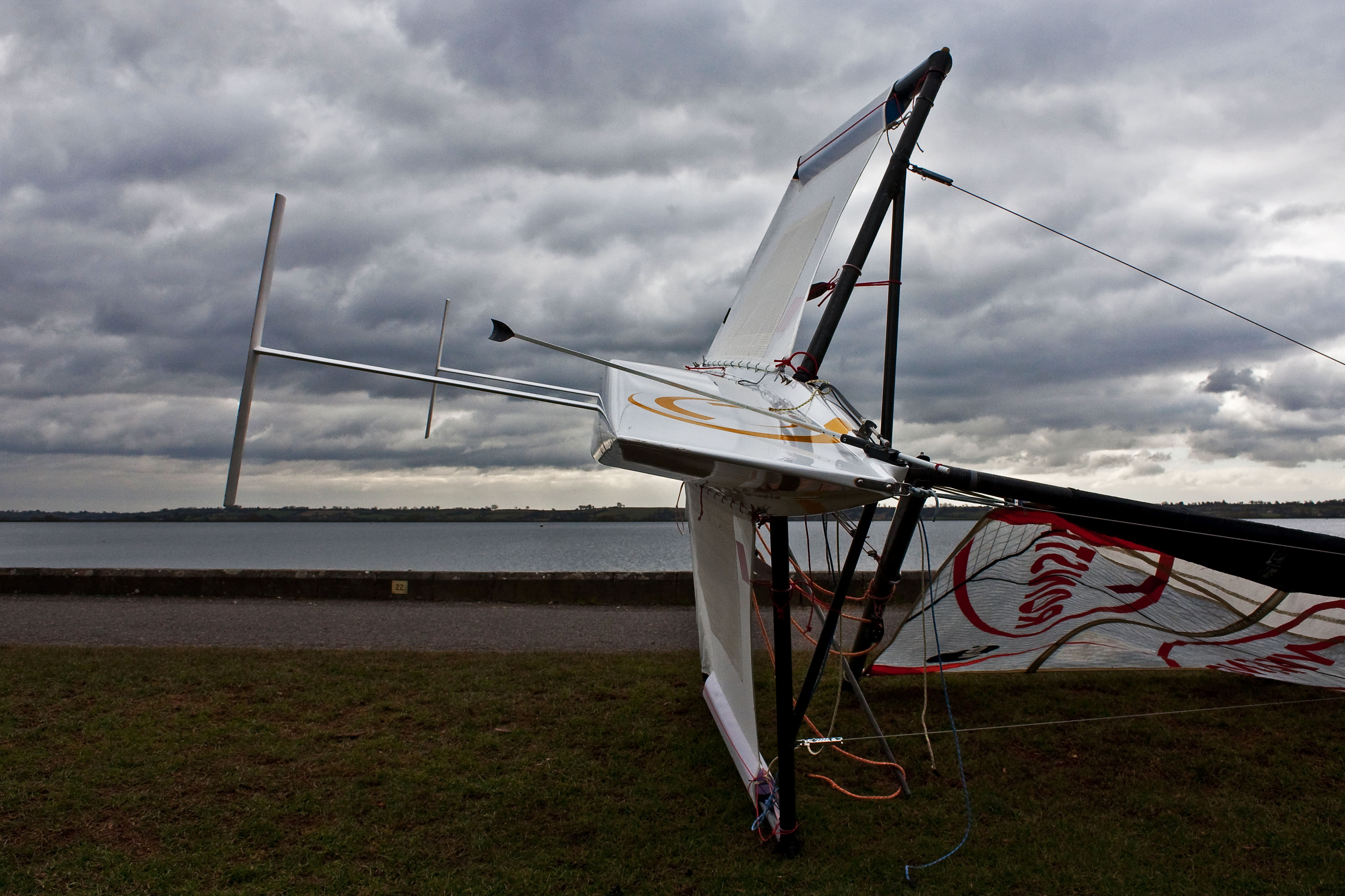 This strange contraption is a Moth dingy with hydrofoils.